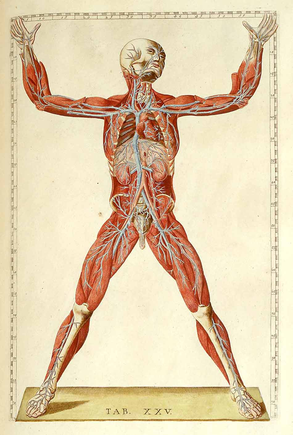 Illustration of Eustachi tab 25